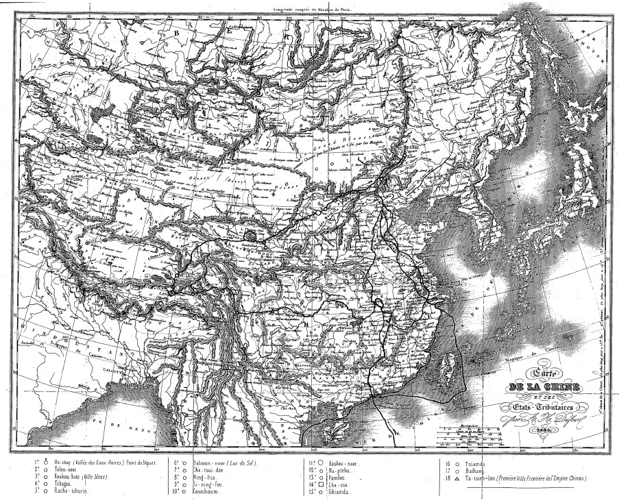 A small French National Library scan of Dufour's 1840 "Map of China and Its Tributary States", used in Huc's 1853 2nd edition of his Remembrances of a Voyage in Tartary, Tibet, and China during the Years 1844, 1845, and 1846 with a dark line tracing the route of Huc and his fellow missionary Joseph Gabet. Note that this line is correct and includes his sea voyages, as opposed to the erroneous route traced in the 1st edition which confused Huc's route with Dufour's illustration of the Grand Canal.The Yellow River is still shown following its lower course from before the massive floods of the 1850s.Shanghai is entirely omitted as less important than Hangzhou (Hang-tcheou), Suzhou (Sou-tcheou), and Songjiang (Song-kiang, entirely misplaced to the north bank of the Yangtze).Some important places along Huc's route have been marked in the map and noted in a legend at the bottom of the page.Note that Huc & Gabet did not carry Dufour's map but one of those printed by Andriveau-Goujon like this. Legend 1°.♁He-chuy (Valley of the Black Waters) Point of Departure.6°.○Dalsoun-noor (Salt Lake).11°.〇Koukou-noor.16○Tsiamdo. 2°.○Tolon-noor.7°.○Che-tsui-dze.12°.○Na-ptehu.17○Bathang. 3°.○Kokou-hote (Blue Town).8°.○Ning-hia.13°.○Pamfou.18△Ta-tsien-lou (First Border Village of the Chinese Empire). 4°.○Tchagau.9°.○Si-ning-fou.14°.☐Lha-ssa. 5°.○Rache-tehurin.10°.○Kounboum.15°.○Ghiamda.